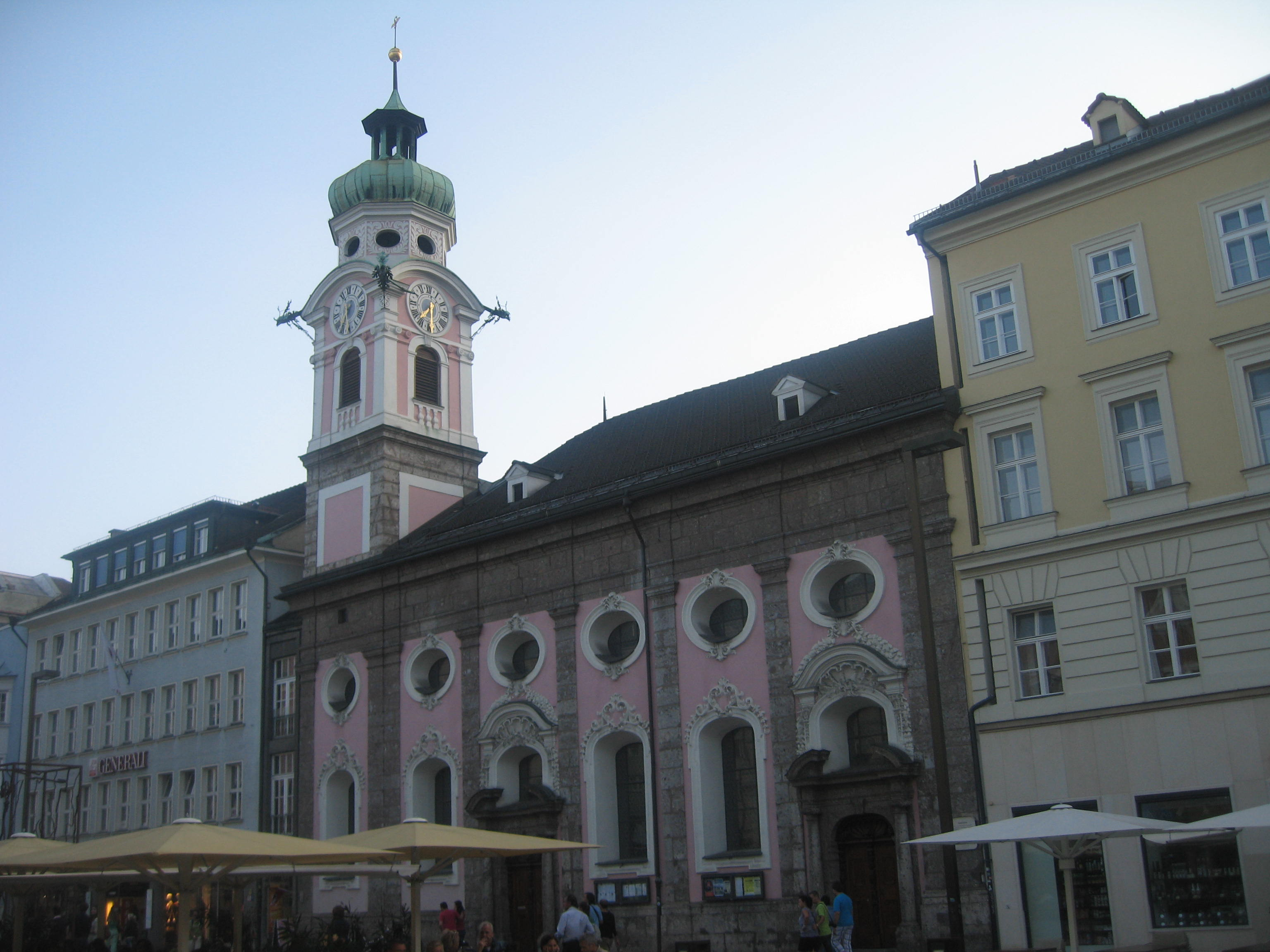 Spitalskirche Innsbruck